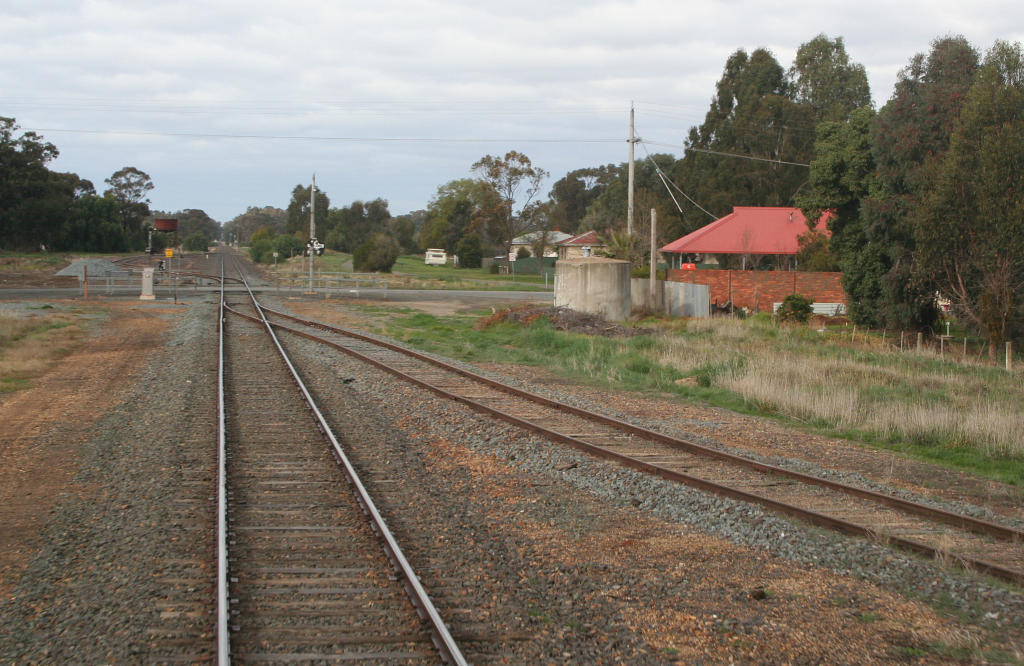 Echuca - Toolamba line junctions off, at Toolamba railway station, Victoria, looking towards Seymour